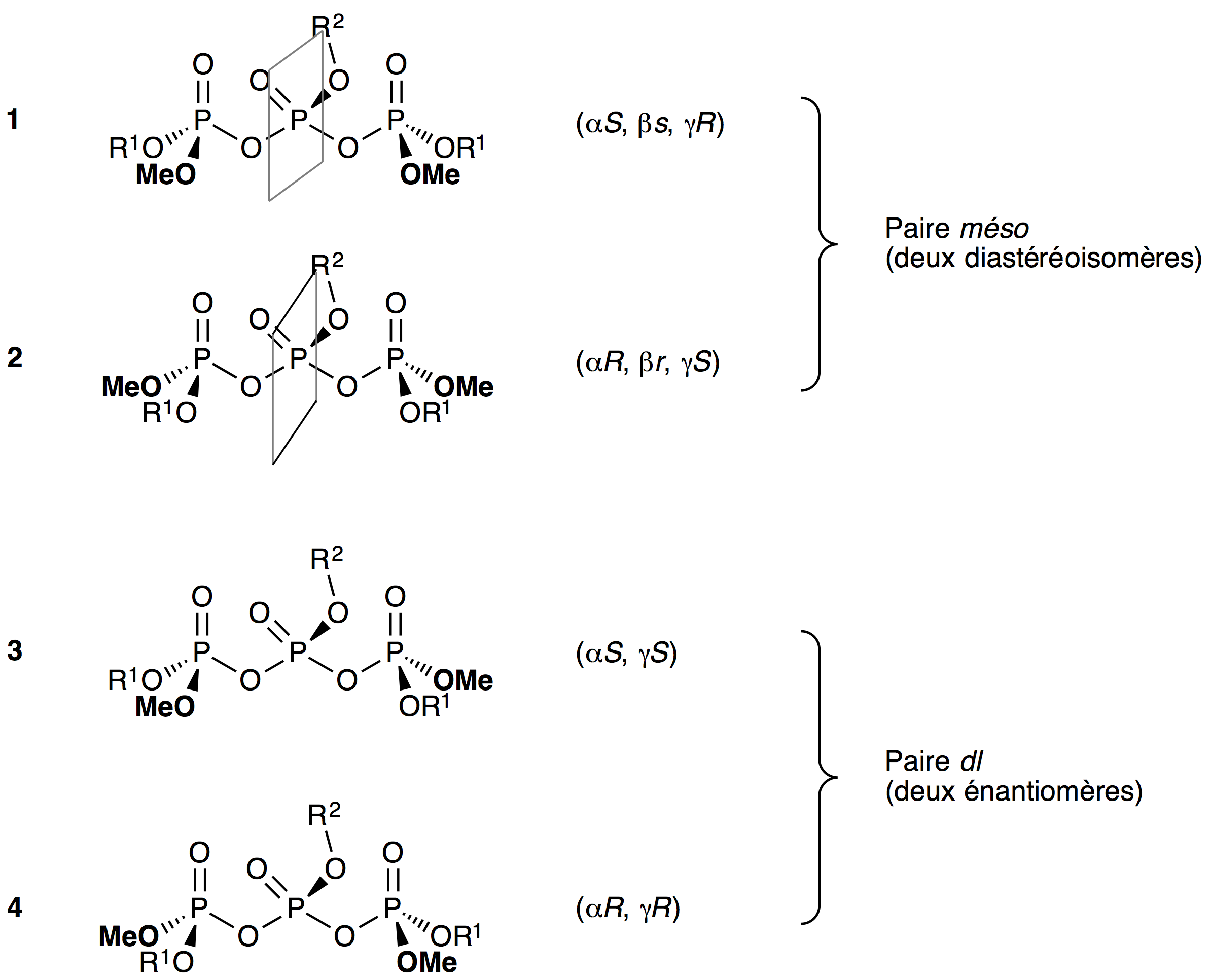 Example of pseudo-assymetry of a triphosphate derivative